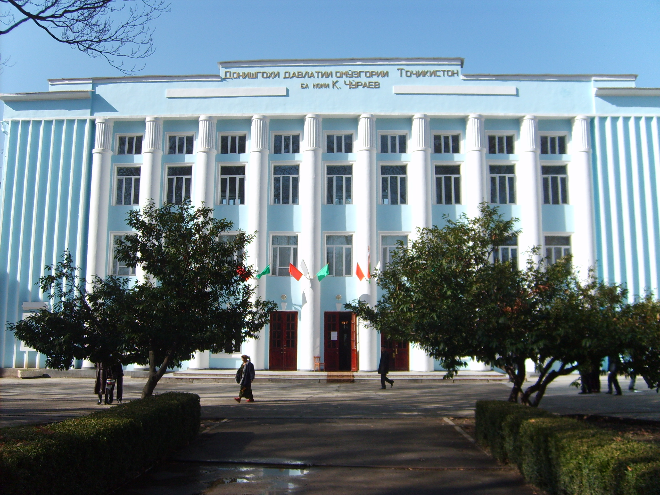 State Teaching University of Tajikistan